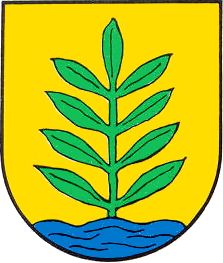 Coat of arms of Bombach (Kenzingen)